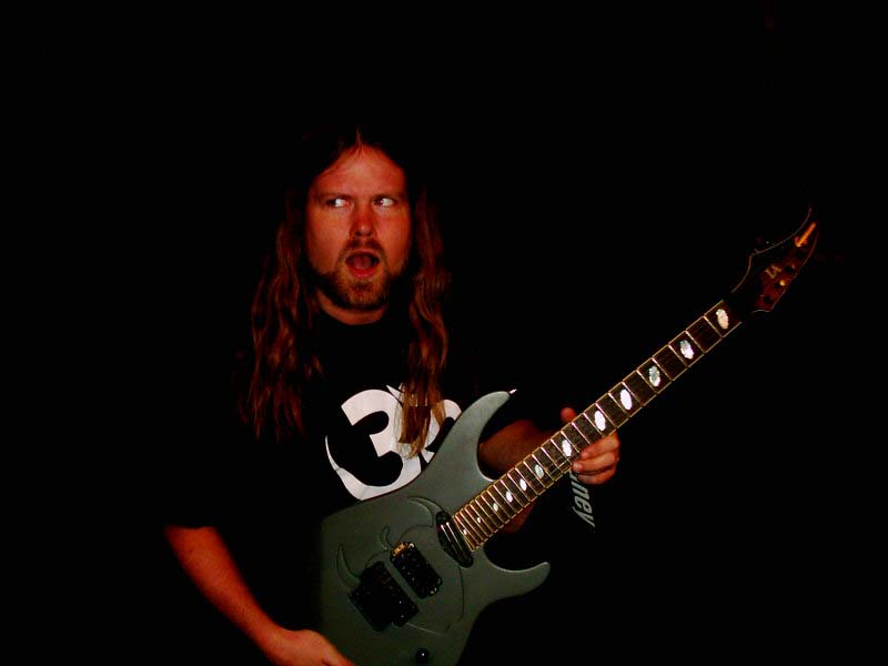 A picture of IA while on tour in Mumbai, India with Jonas Hellborg. (del) (cur) 20:36, 17 May 2006 . . Gupta anuj (Talk) . . 800x600 (45,319 bytes) (Picture taken by self. A picture of IA while on tour in Mumbai, India with Jonas Hellborg. )